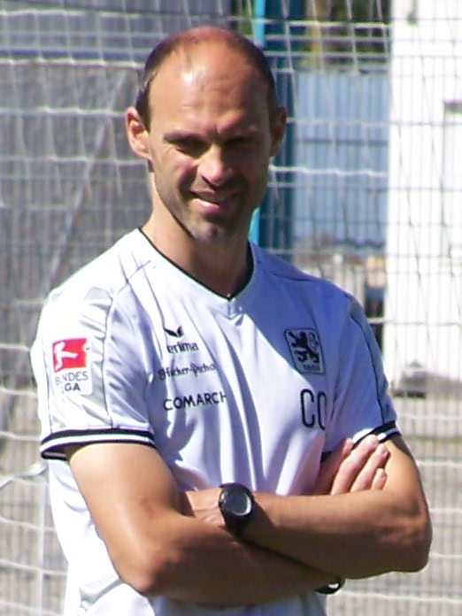 Alexander Schmidt, coach of 1860 munich, training